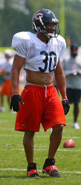 I took this picture of Mike Brown on August 2, 2007 at the Chicago Bears 2007 Training Camp.